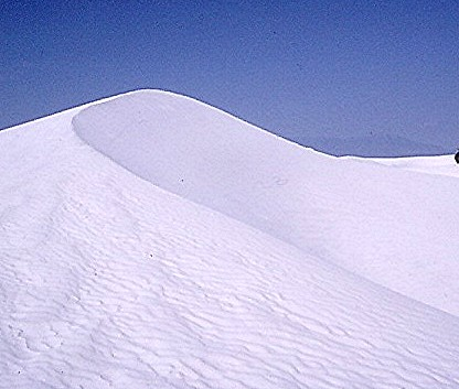 White Sands National Monument